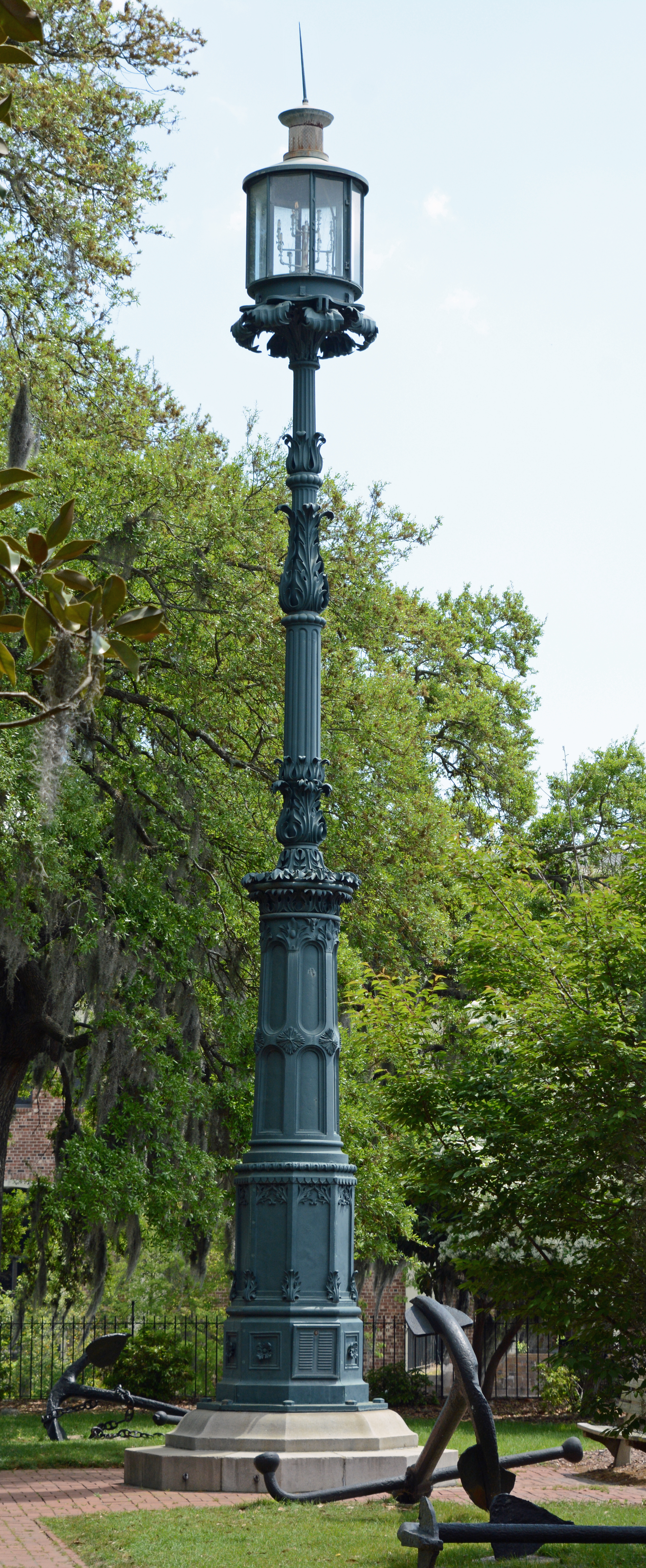 Old Harbor Light, Savannah, GA, US